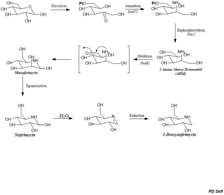 1-DNJ and NJ biosynthesis pathways